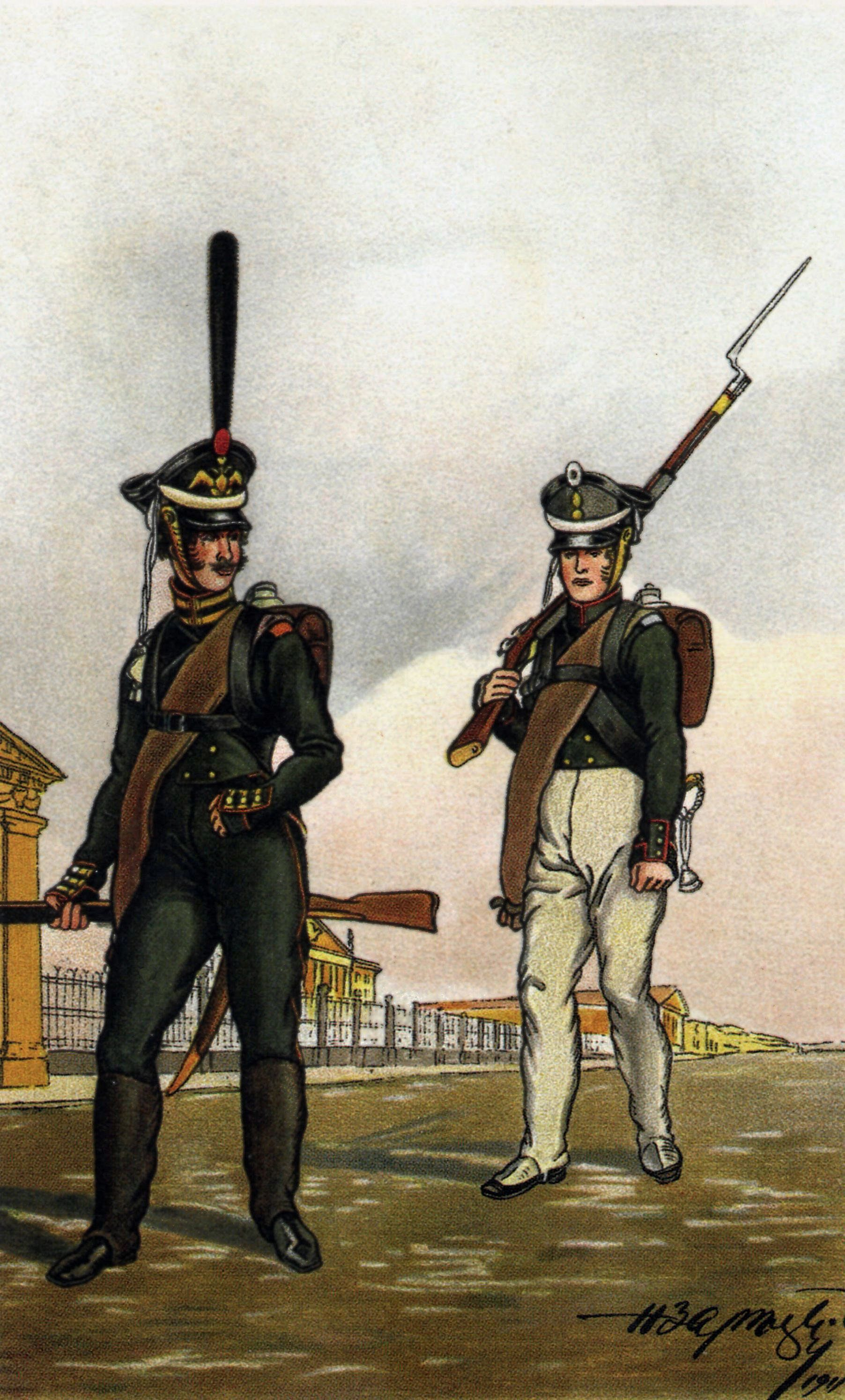 From the series The Russian Army in 1812.